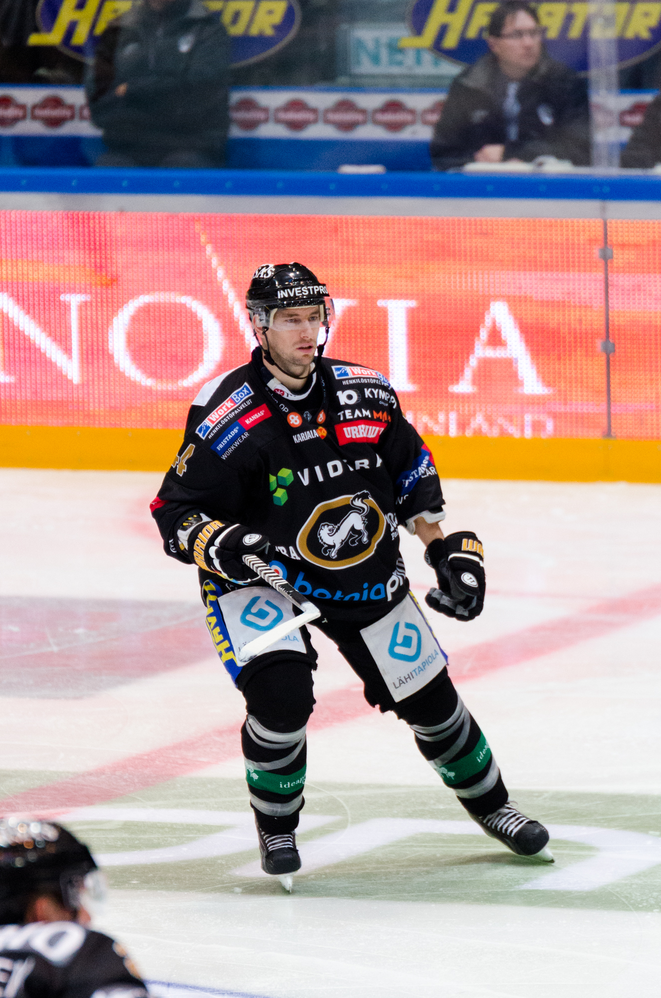 Ryan Glenn on 20th of September 2014 in Kärpät - Blues match.